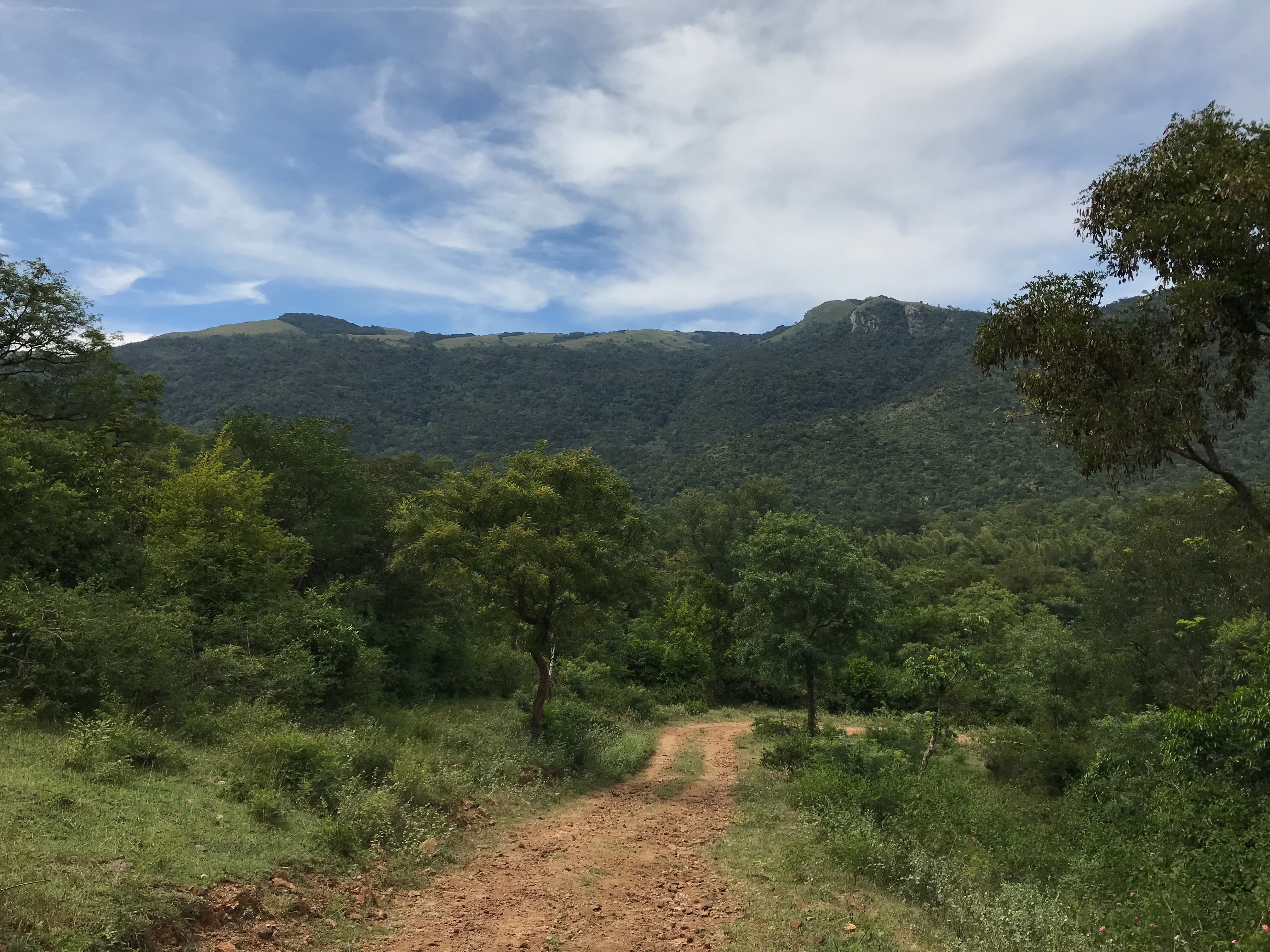 Photo showing the hills at the eastern side of BRT Tiger Reserve. Hokkubare and honnebare seen among others north of Mavathur. These names are used by the Soliga people